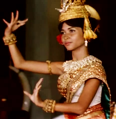 A snapshot from a film of Princess Buppha Devi dancing. This excerpt was pulled from a video of the Royal Ballet of Cambodia posted on 's Youtube channel. The U.S. National Archives also has a clip and mentions it was created by the United States Information Agency.